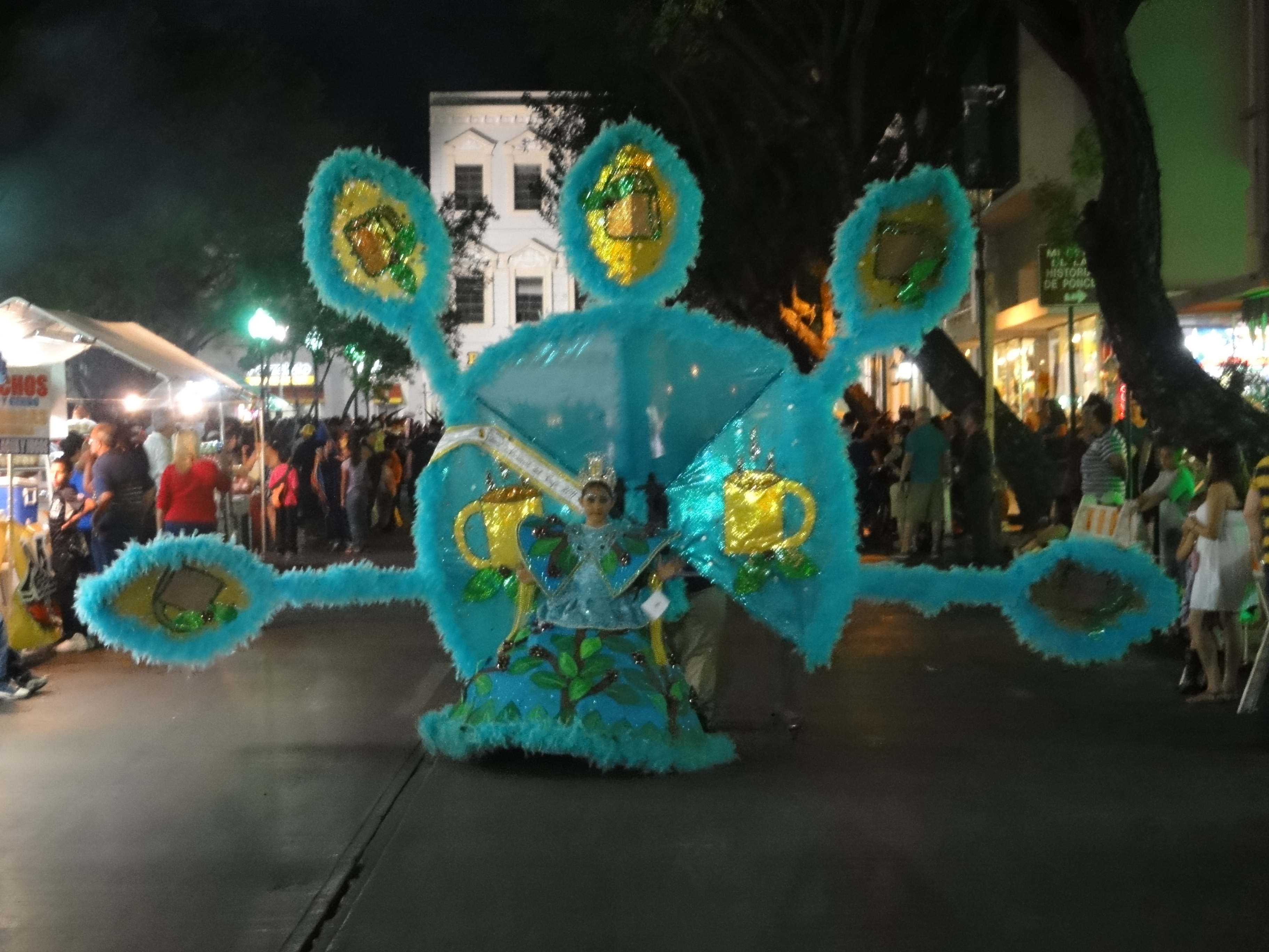 Carnaval de Ponce 2011, C. Marina, Plaza Las Delicias, Ponce, Puerto Rico, mirando al norte (DSC02431)